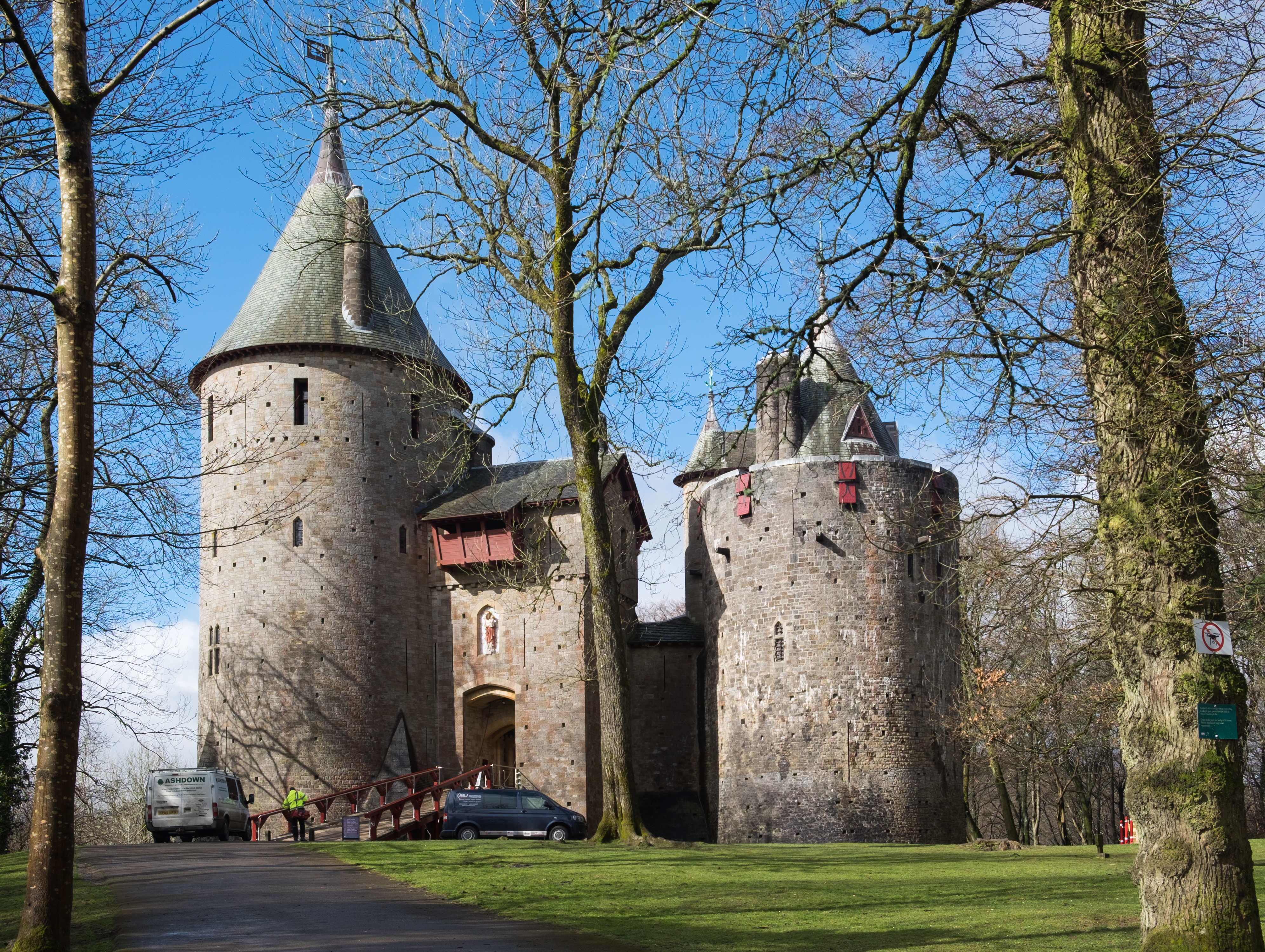 Castell Coch, Tongwynlais near Cardiff in Wales. This castle, originating in the 12th and 13th centuries and almost entirely rebuilt between 1875 and 1891, is a grade I listed building in Wales.